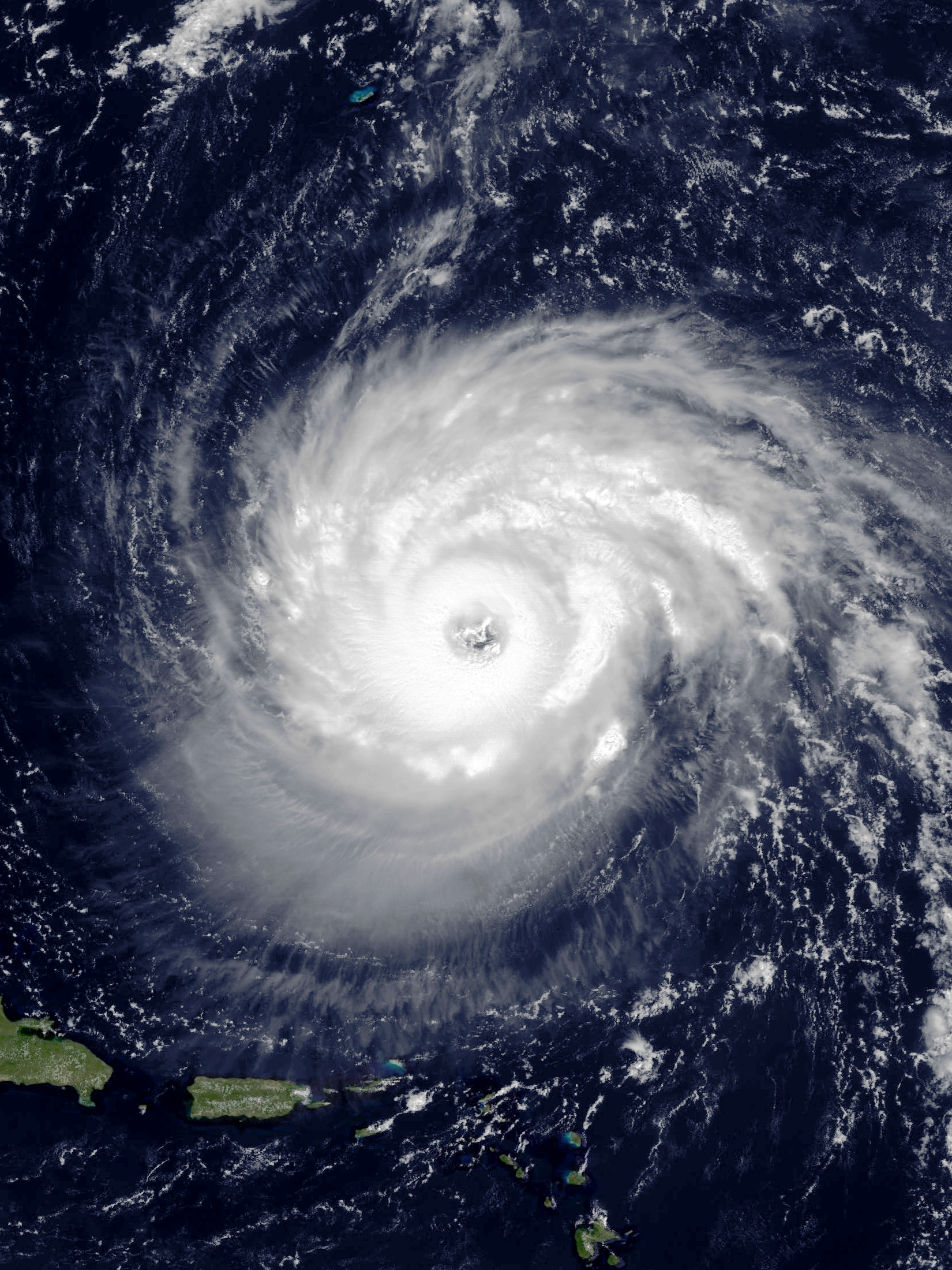 The GVAR imager instrument onboard the NOAA GOES-13 satellite captured this visible image of Hurricane Katia on September 5, 2011, at 16:15 UTC. At the time this image was captured, Katia was a Category 3 hurricane with maximum sustained wind speeds of 115 mph (185 km/h), and its minimum central pressure was 950 mb.